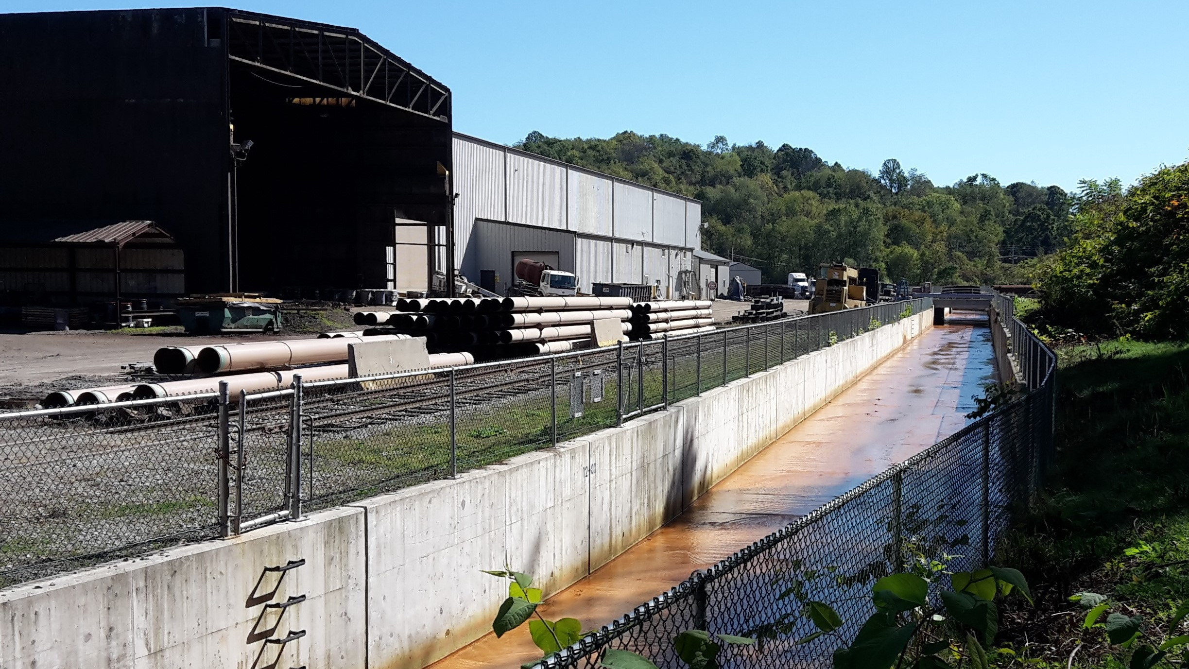 The Dura-Bond pipe coating facility next to the Turtle Creek Industrial Railroad in Export PA